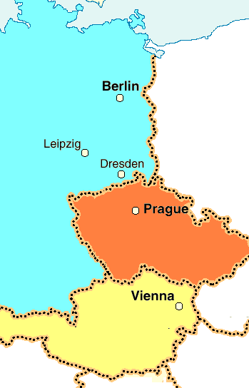 The five cities of Mozart's 1789 journey. Drawn by Opus33 using Microsoft Paint.